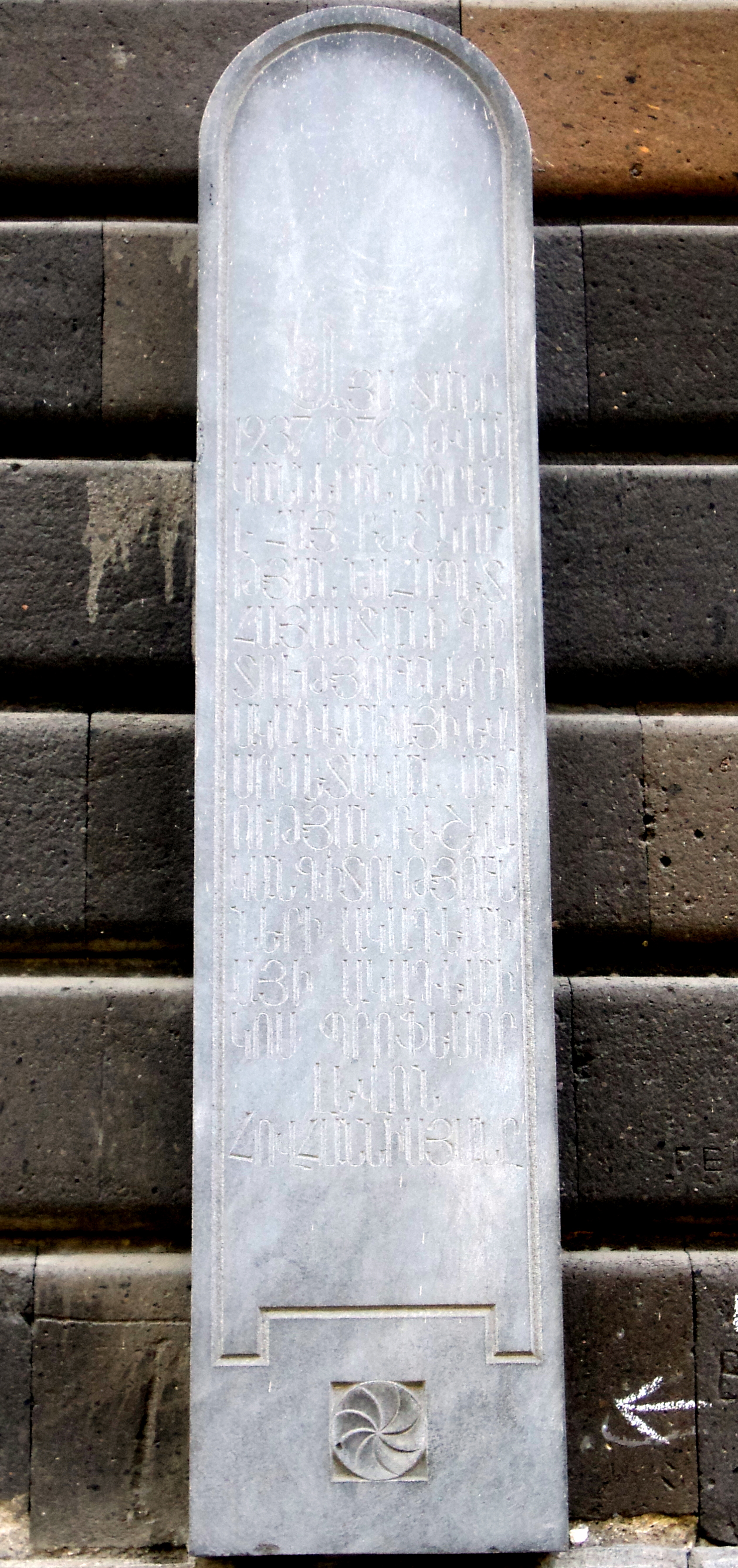 Levon Hovhannisyan's (doctor) plaque